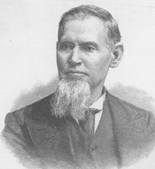 Silas Hare, US Representative from Texas